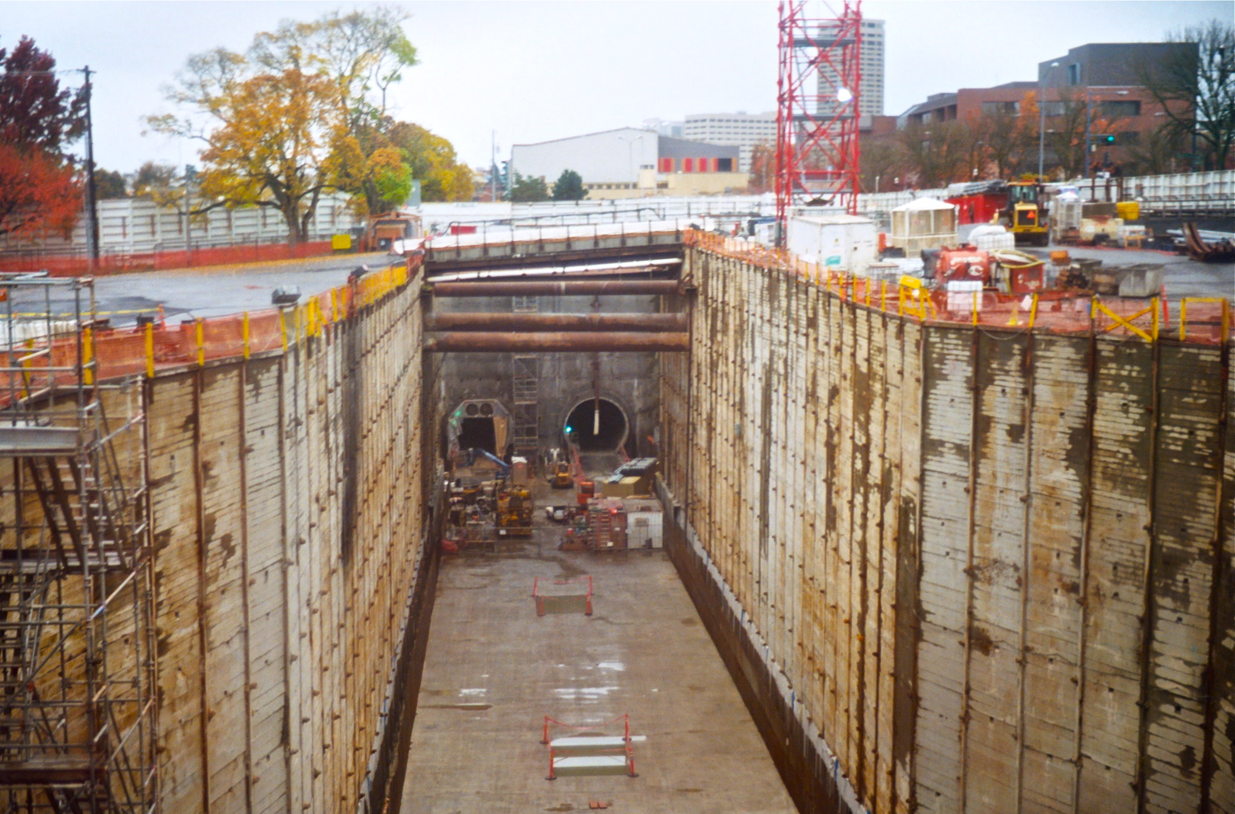 View of tunnels into Capitol Hill Link Station, Seattle, Washington, under construction. Camera facing south from pedestrian walkway on northern edge of site.